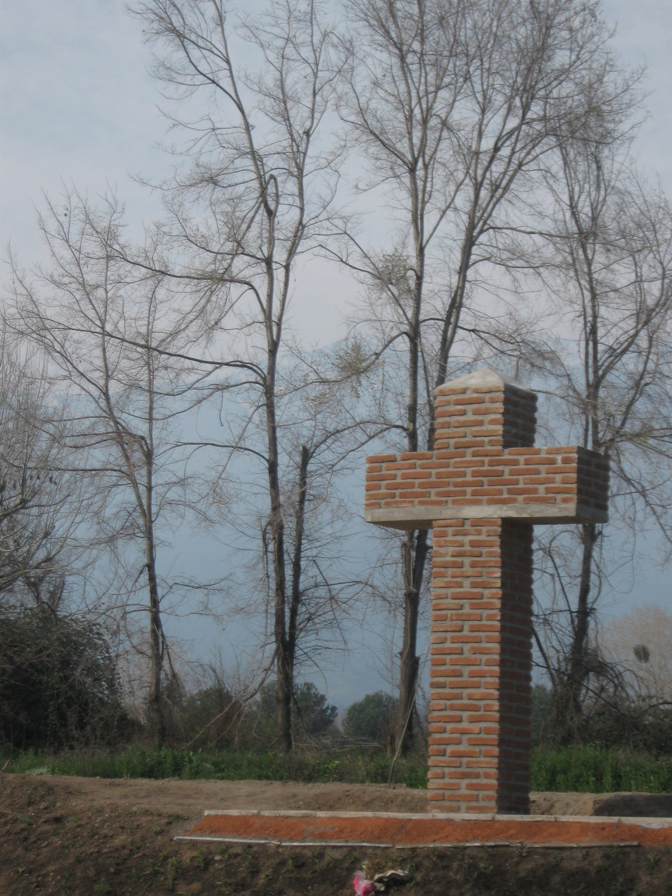 Lo Cañas Memorial Santiago de Chile